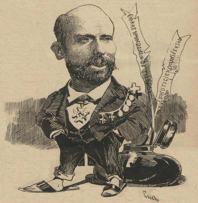 Francisco Peris Mencheta, in La Semana Cómica magazine of 6.7.1888